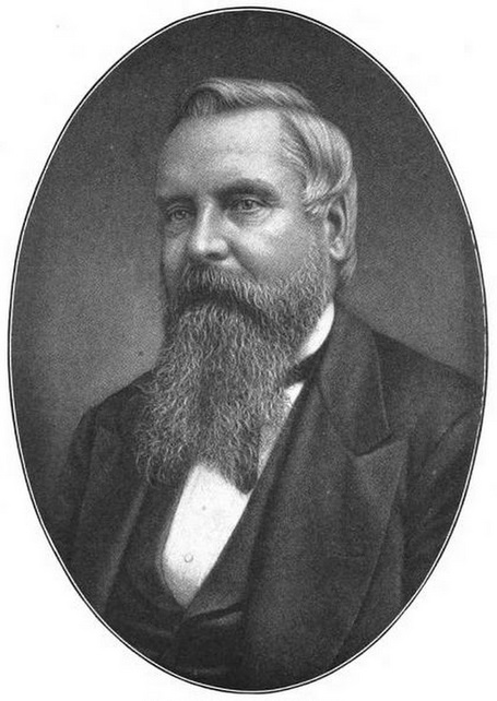 Henry Chisholm (1822-1881), Ohio steel magnate who created Chisholm, Jones & Co. which later became Cleveland Rolling Mill.